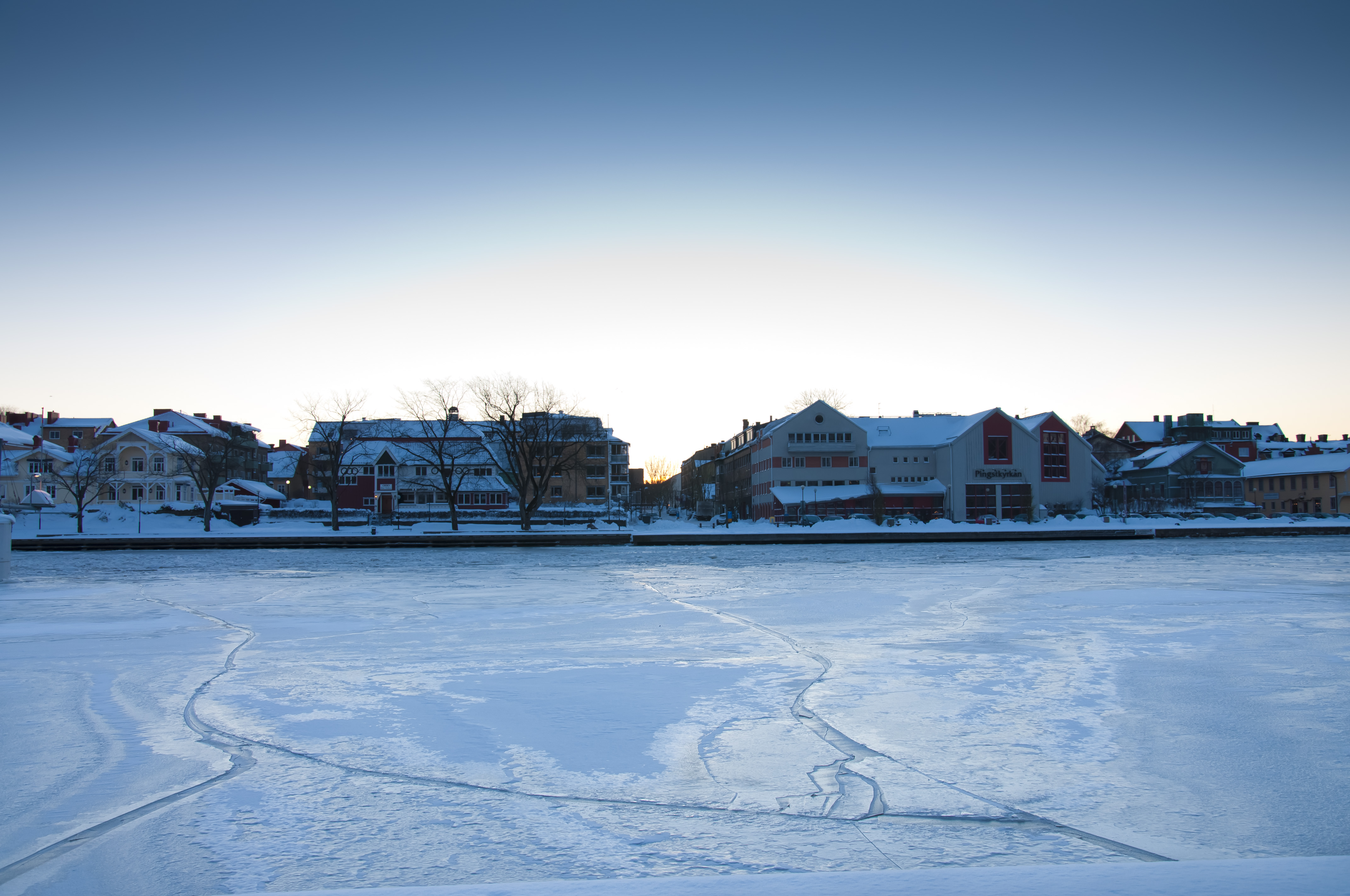 Photo of Trollhattan winter time.